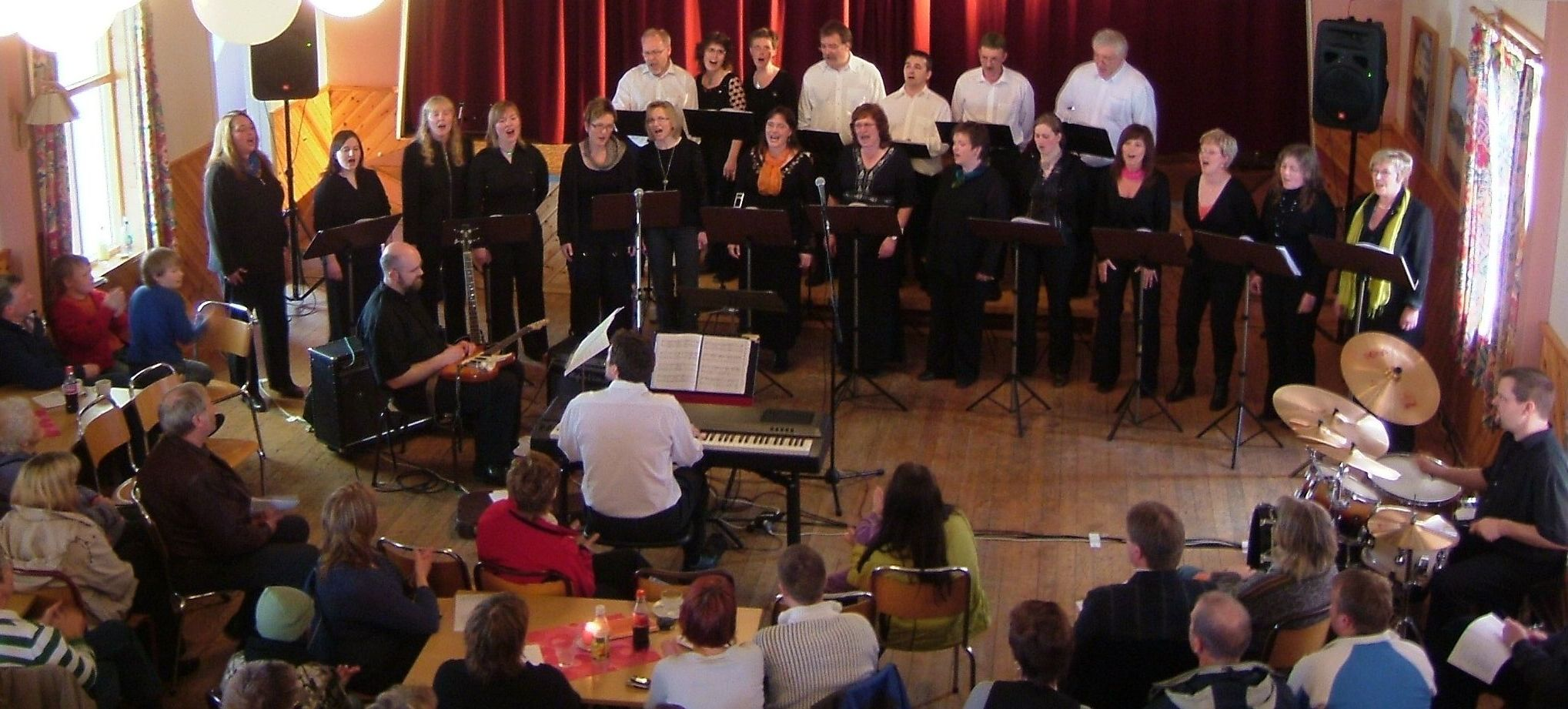 The Norwegian choir Onøy/Lurøy sangkor performing in 2007